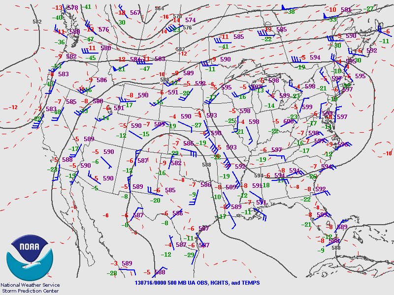 500 mb plotted radiosonde data map and isohypses analysis.